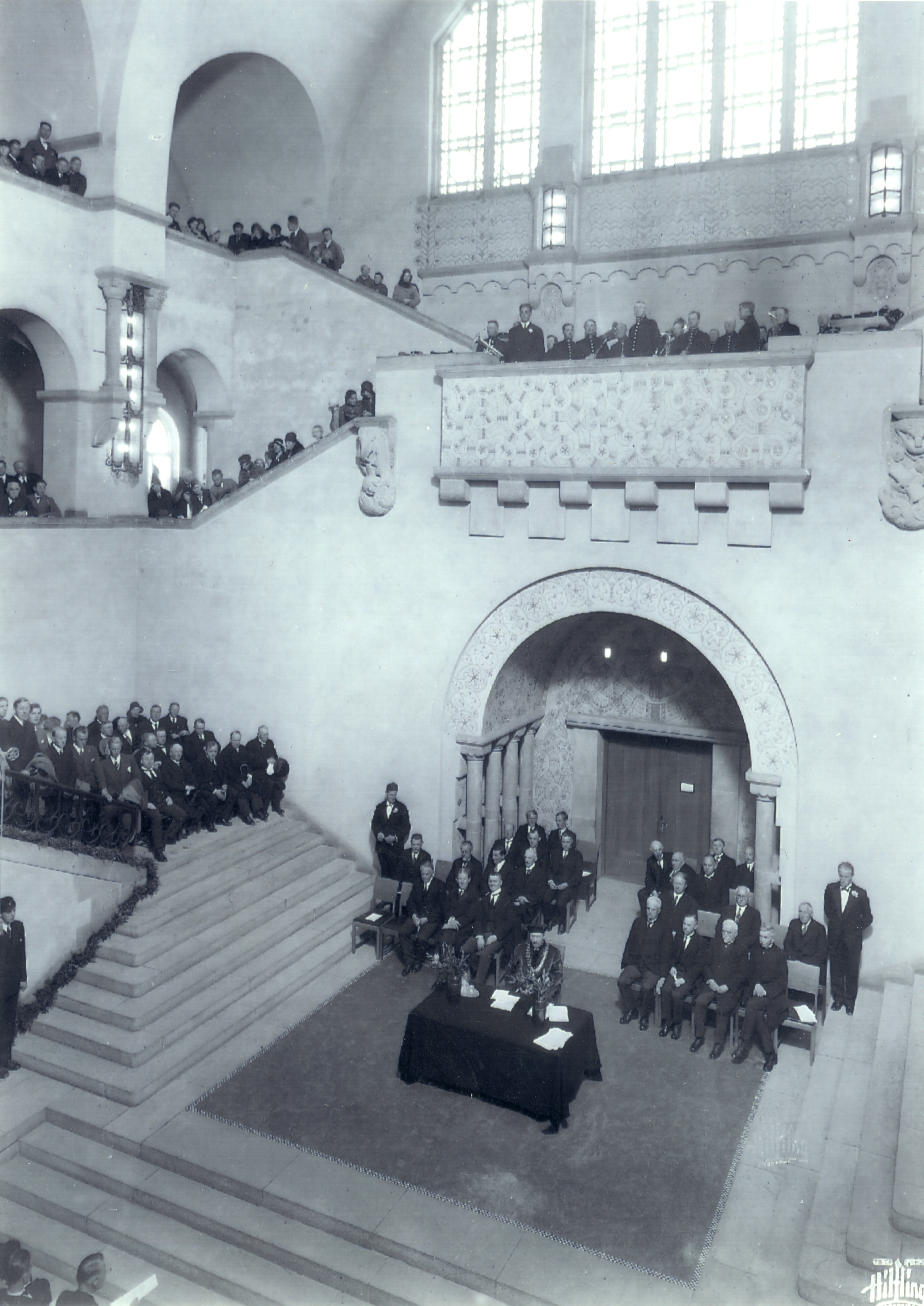 The main hall in Hovedbygningen (=the main building) at NTH (The Norwegian Institute of Technology. The picture shows the matriculation of new students some time around 1920. The building is situated at Campus NTNU Gløshaugen, Trondheim. Architect: Bredo Greve